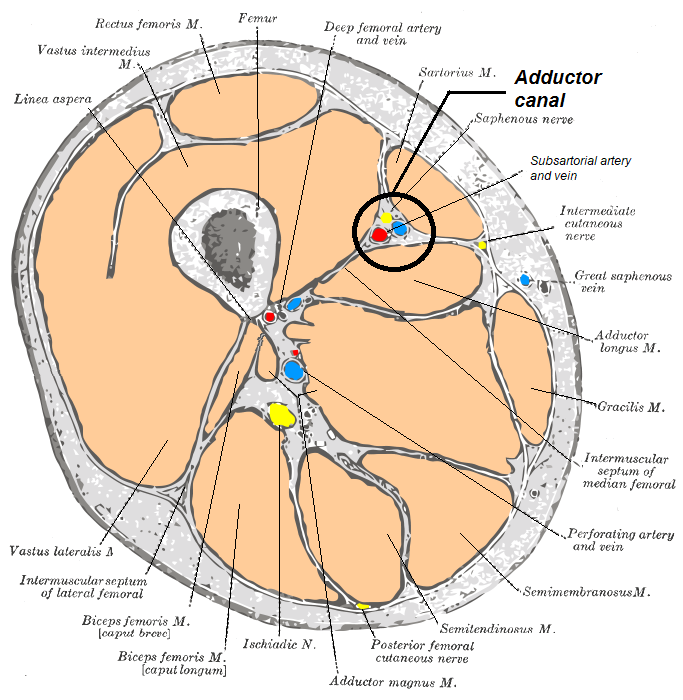 Adductor canal, horizontal section